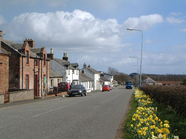 Carrutherstown In spite of its name, Carrutherstown is a small Annandale village. The view is of the main street, which was the main Annan - Dumfries road until the A75(T) was built, bypassing the village.